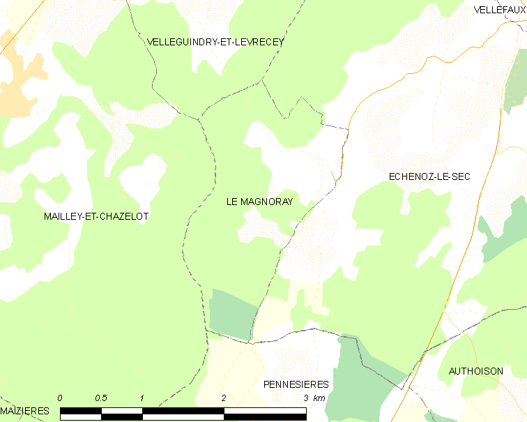 Map of French municipality